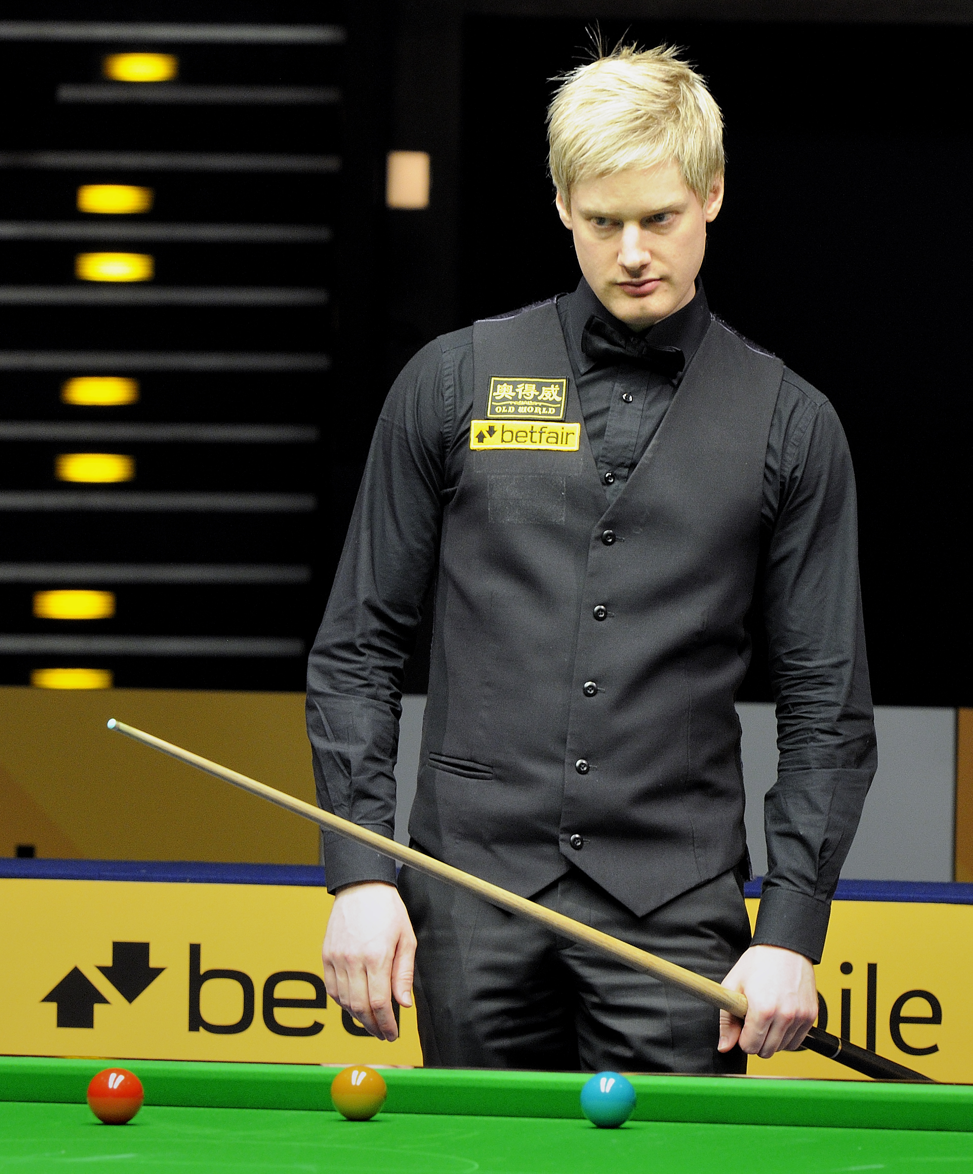 Picture taken in Berlin during the Snooker German Masters in 2013. Neil Robertson.